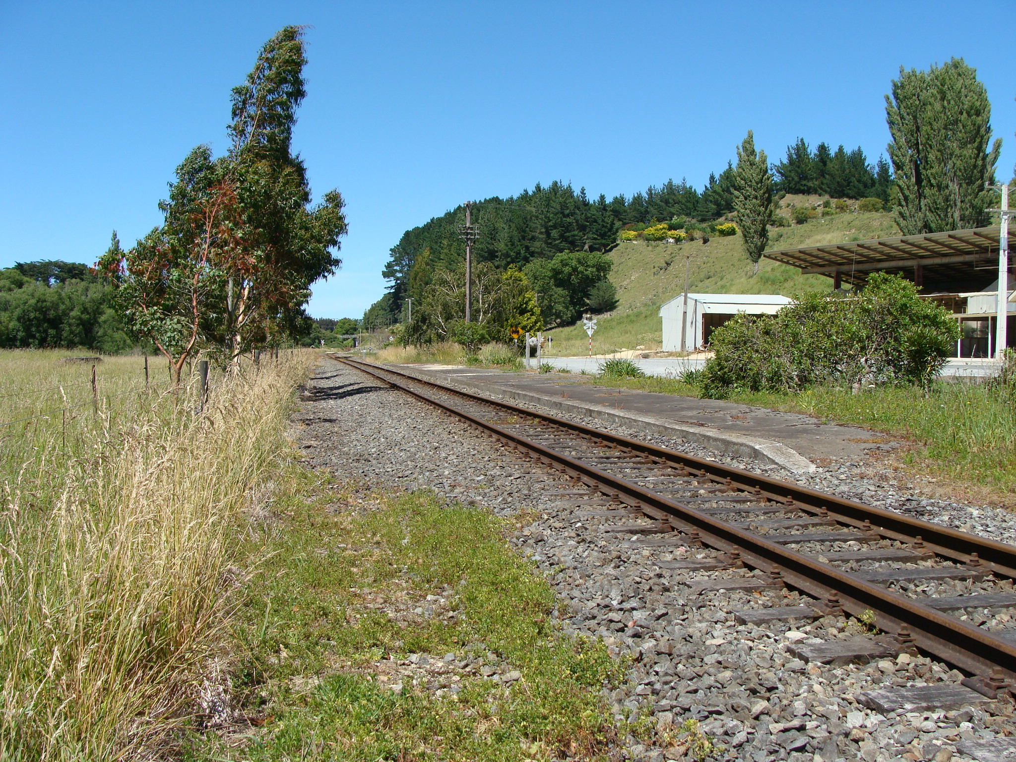 Mauriceville railway station, looking south. At far left (behind the fence) is the loading bank; to the right of the track is the platform and station nameboard (facing the road); at right is Opaki Kaiparoro Road and level crossing for the Hatuma Lime Company private siding; at far right are some of the buildings associated with the lime works.